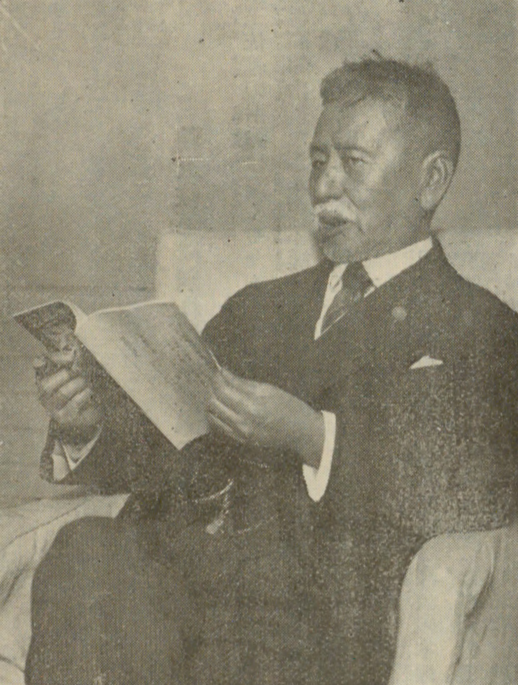 Portrait of Otsu Jun'ichiro (大津淳一郎, 1857 – 1932)